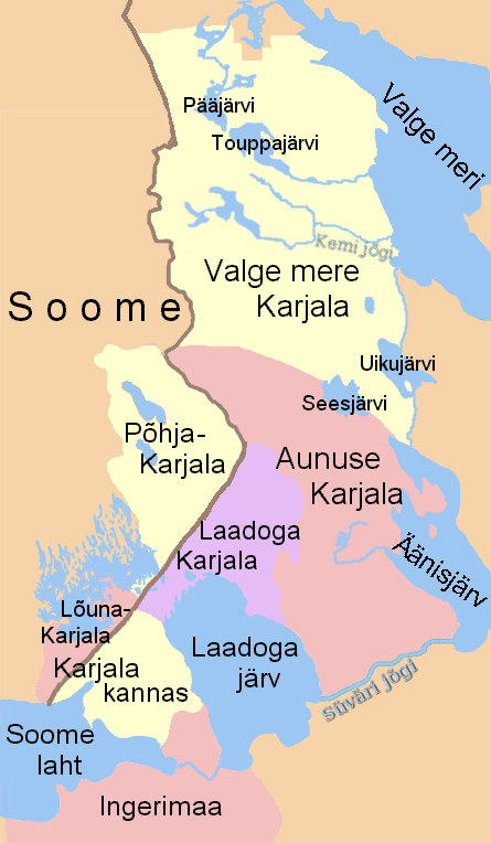 Translated and improved verson of Image:Many Karelias.png